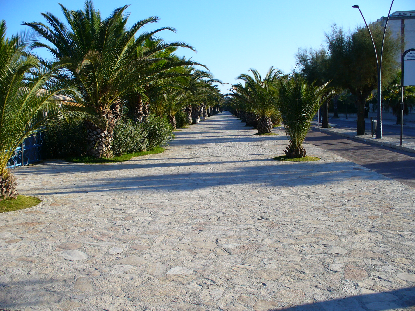 Our Palmcity, in summertime its crowded here. On the left is a marvellous beach.